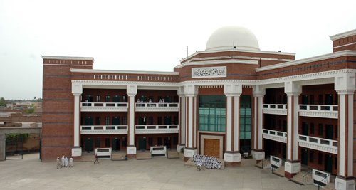 Dar-ul-Uloom Muhammadia Ghousia in Bhera, Pakistan is an institution for Islamic teaching.